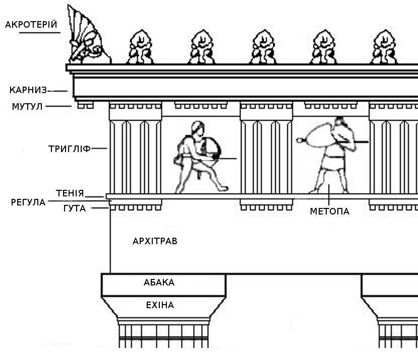 Schema for the elements of the Doric order (in Ukrainian)